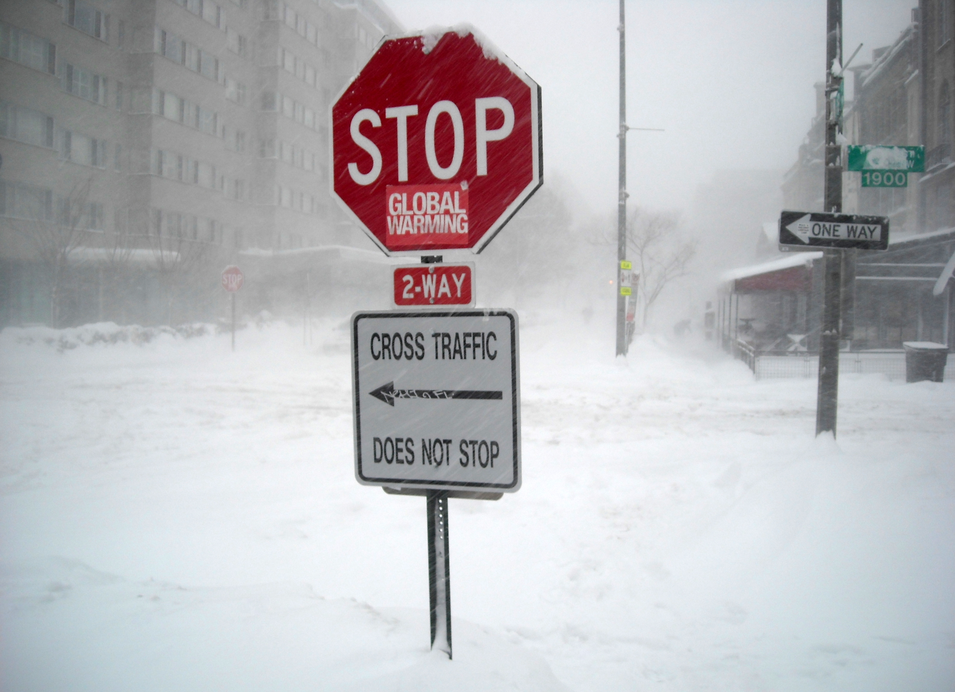 A stop sign reading "stop global warming", located at the intersection of 19th and Q Streets, N.W., in the Dupont Circle neighborhood of Washington, D.C., during the Second North American blizzard of 2010.